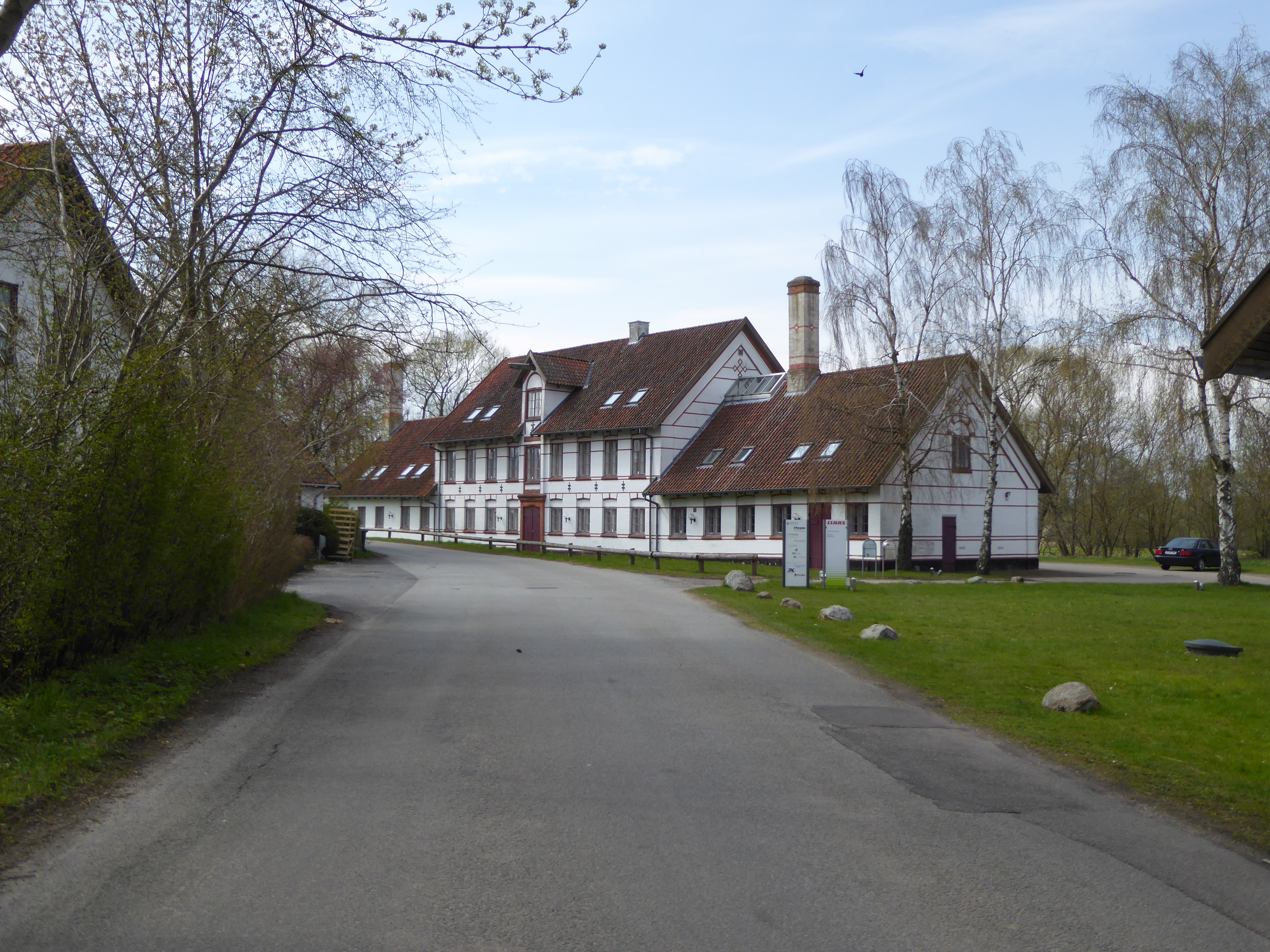 Nive Mølle in Nive, Denmark